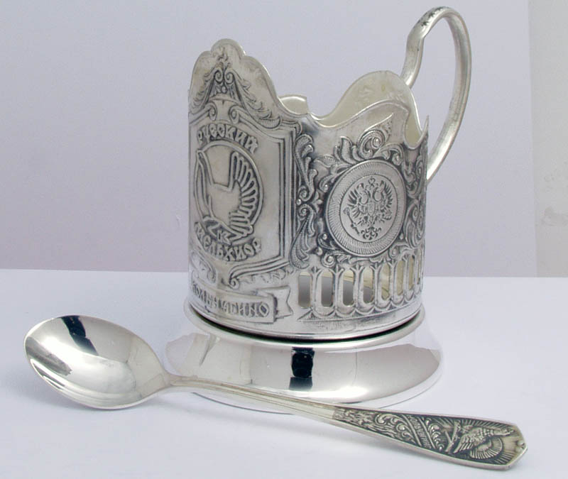 Made by me, A.Myasnikov for then Kolchug-Mizar, JSC TH Web